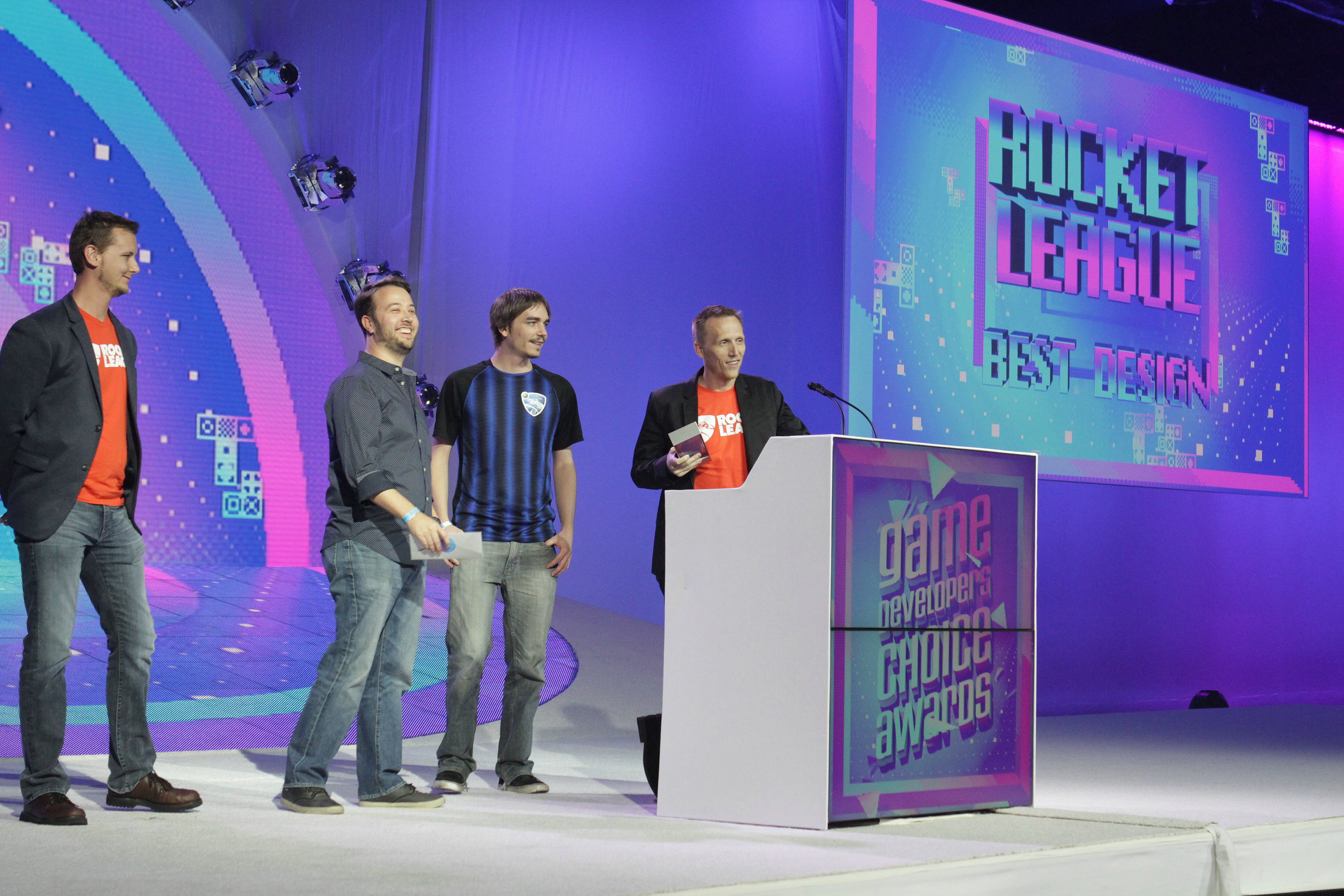 Developers from Psyonix receiving their 2016 Game Developers Choice Award for Best Design for their game Rocket League at the 2016 Game Developers Conference, March 16, 2016.